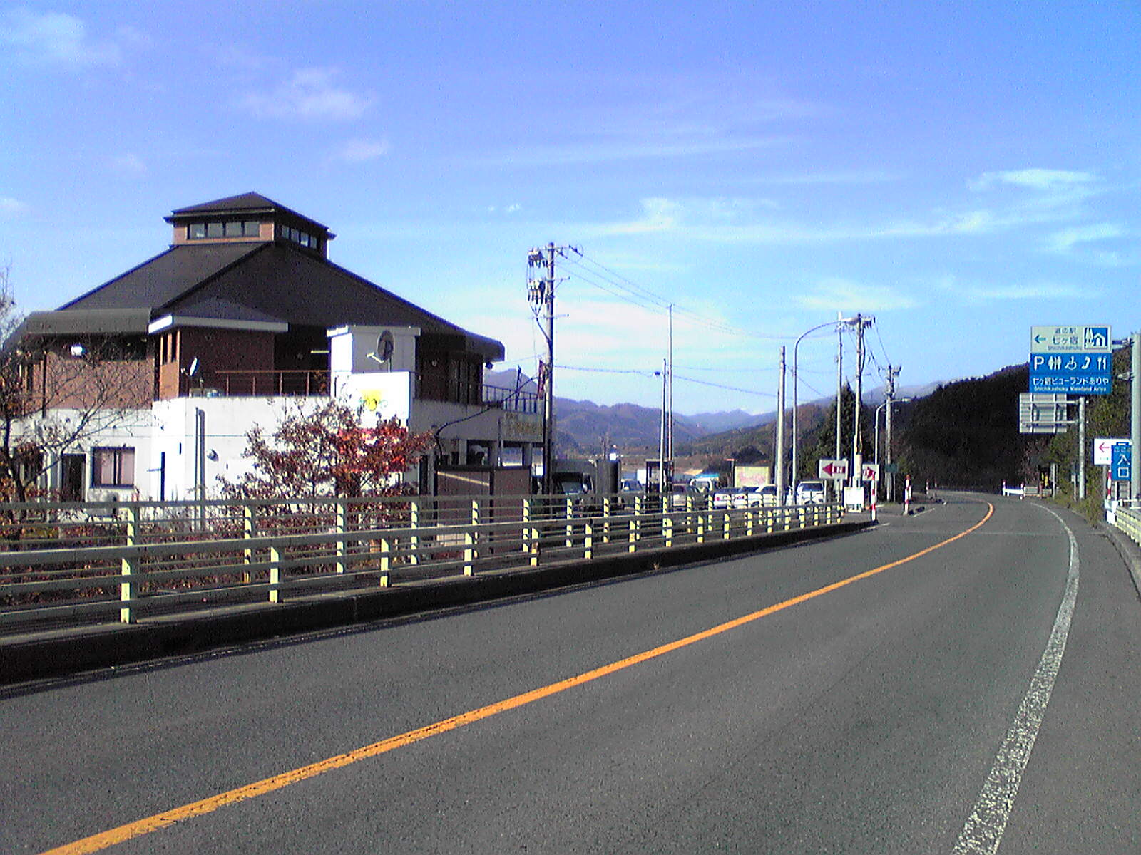 Distant view, Shichikashuku, Roadside Station, Miyagi, Japan.